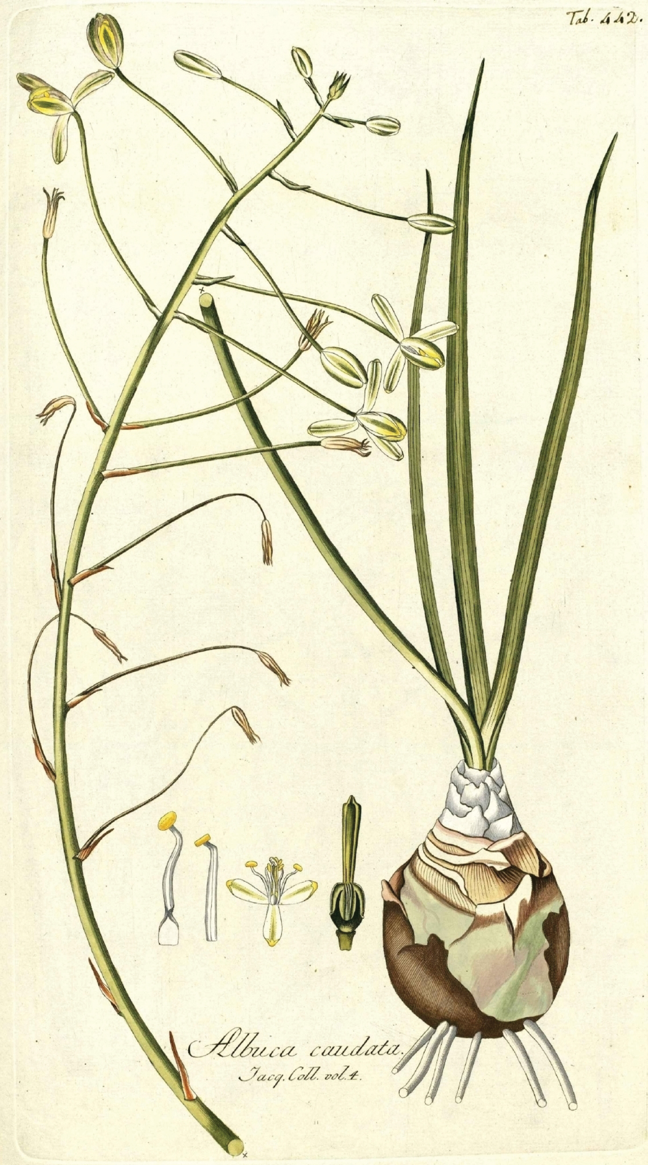 Albuca caudata Jacq. from Jacquin, Ic. Pl. Rar. 2(16): 20, t. 442. 1795.